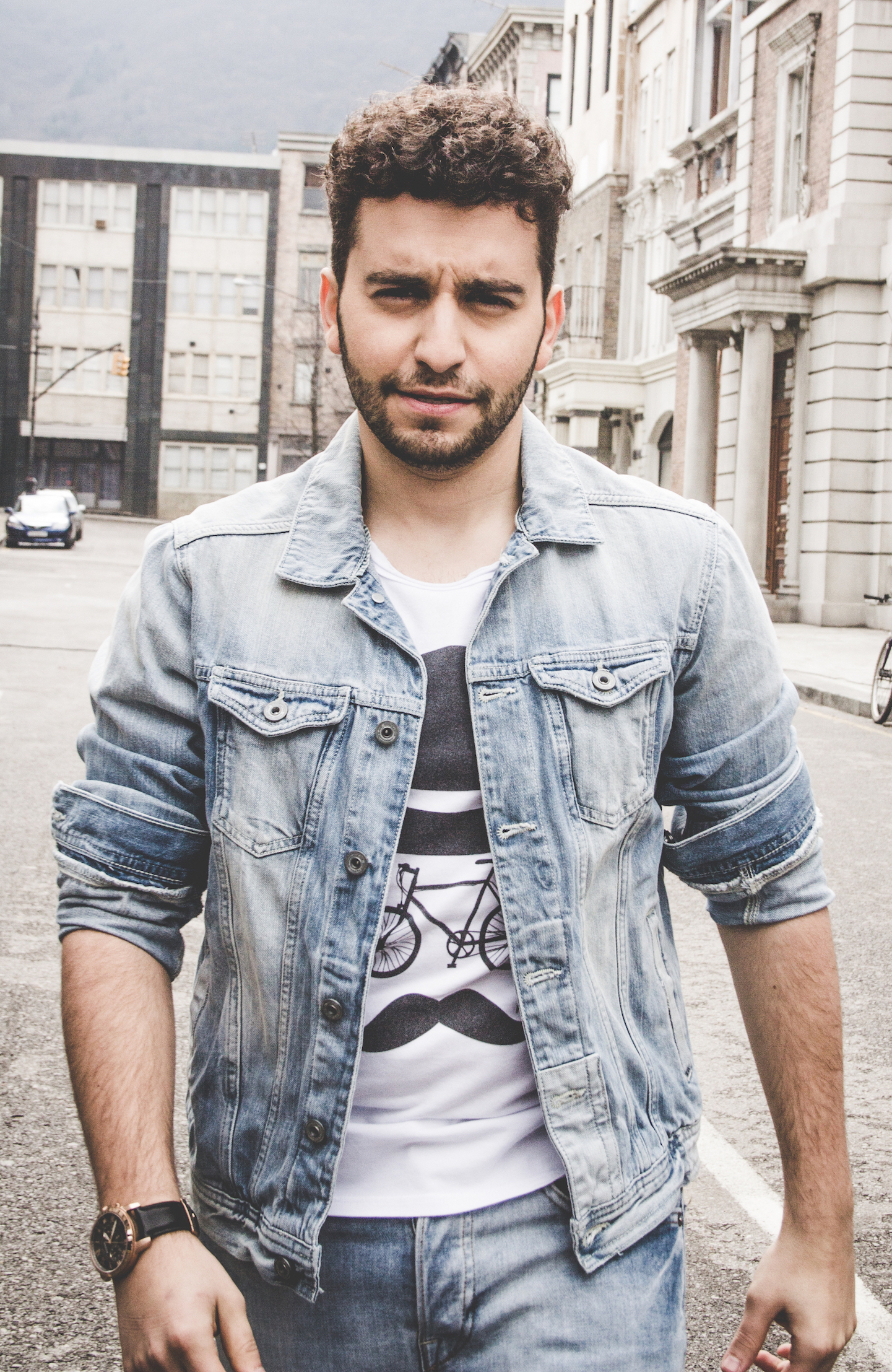 Raffi behind the scenes of "Nameri Me"